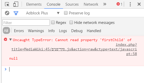 Content translation tool error debug